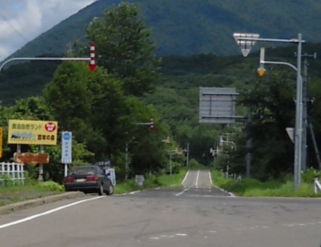 Hokkaido prefectural road route1088, Shikaoi town, Hokkaido, Japan